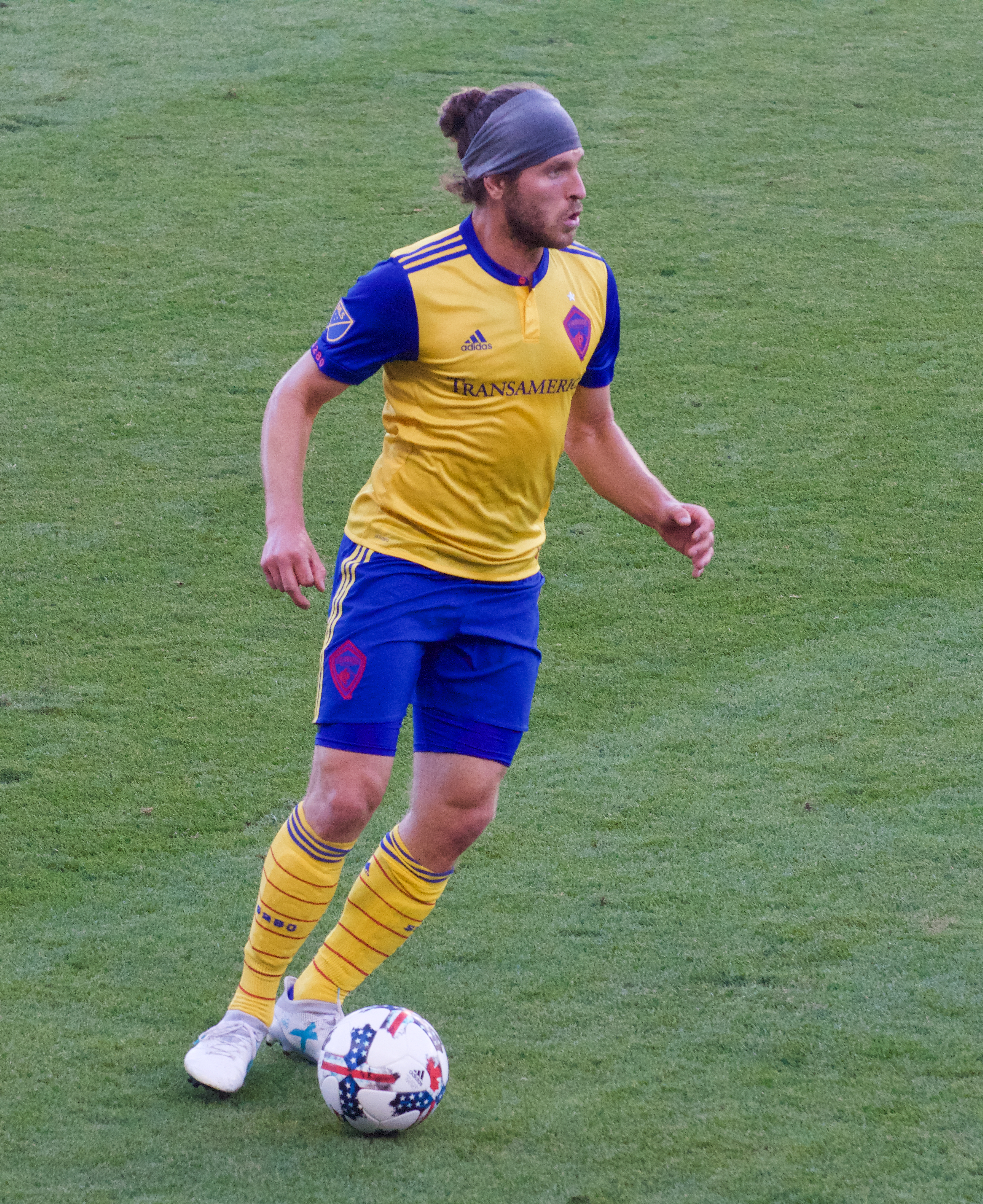 Dillon Powers playing for Colorado Rapids at Avaya Stadium, 29 July 2017.